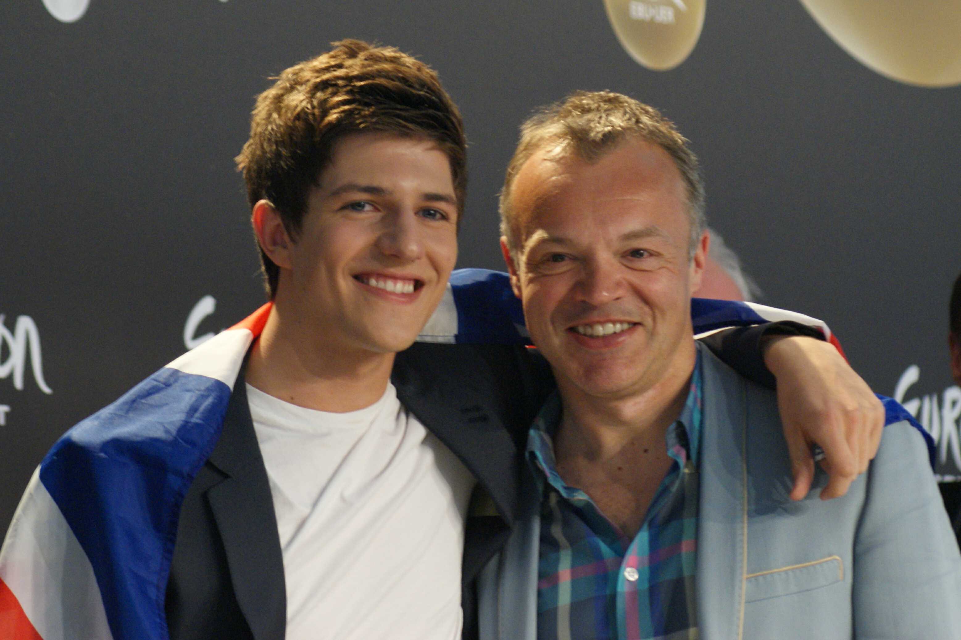 Josh Dubovie and Graham Norton.